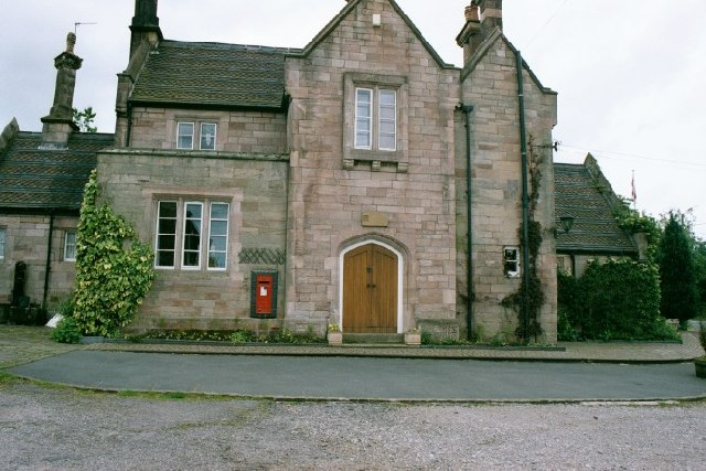 Rushton station, Rushton Spencer, North Staffs.